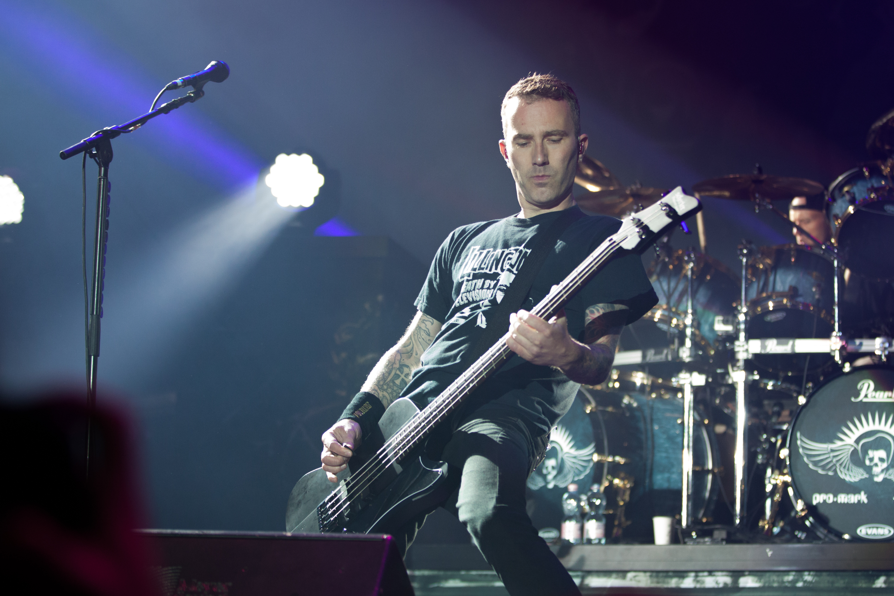 Kaspar Boye Larsen of Volbeat on Seat Volcano Stage at Rock Am Ring 2016 on Flugplatz Mendig in Mendig (Germany)